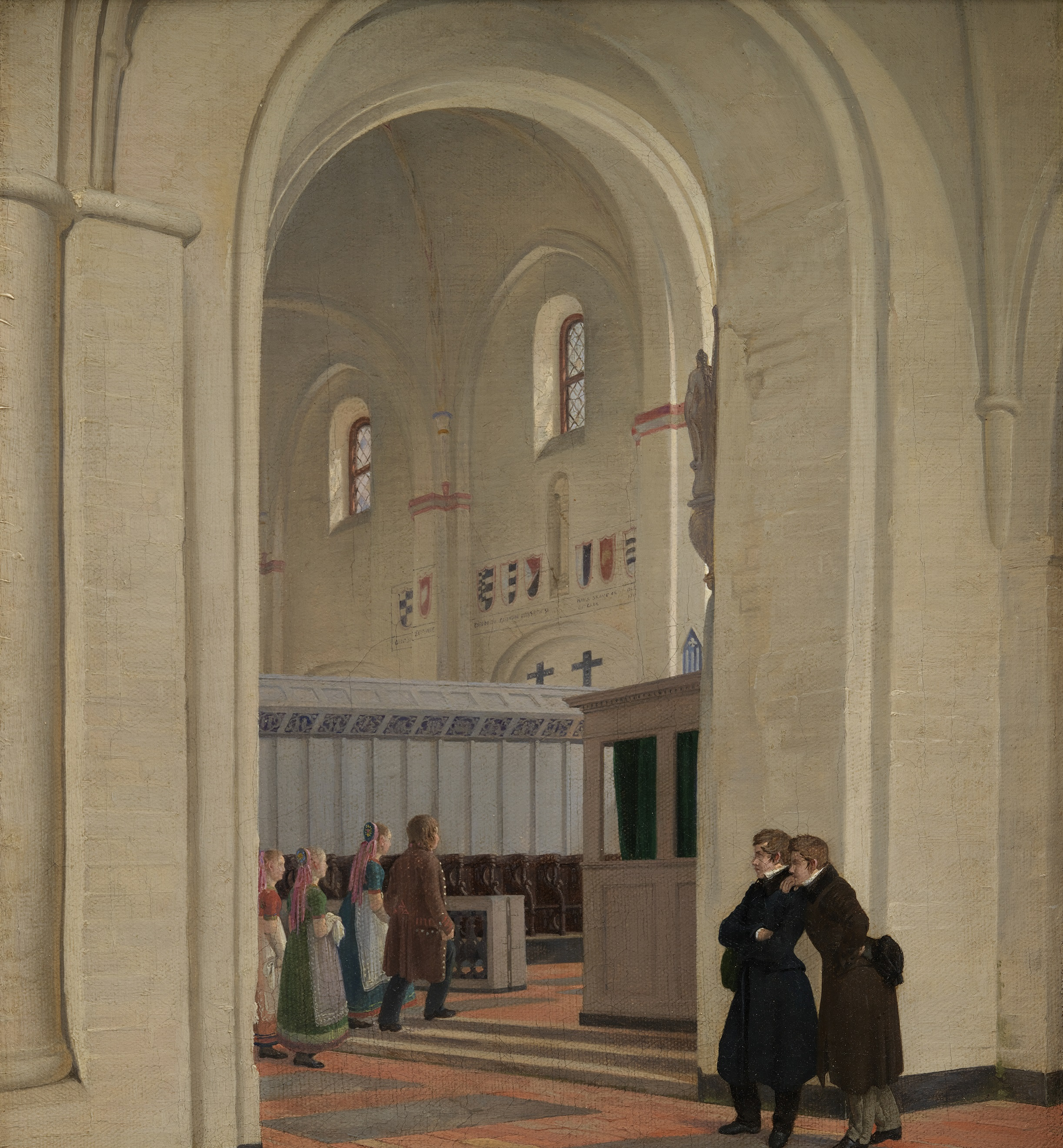 The two men in black are Constantin Hansen and his colleague Jørgen Roed.